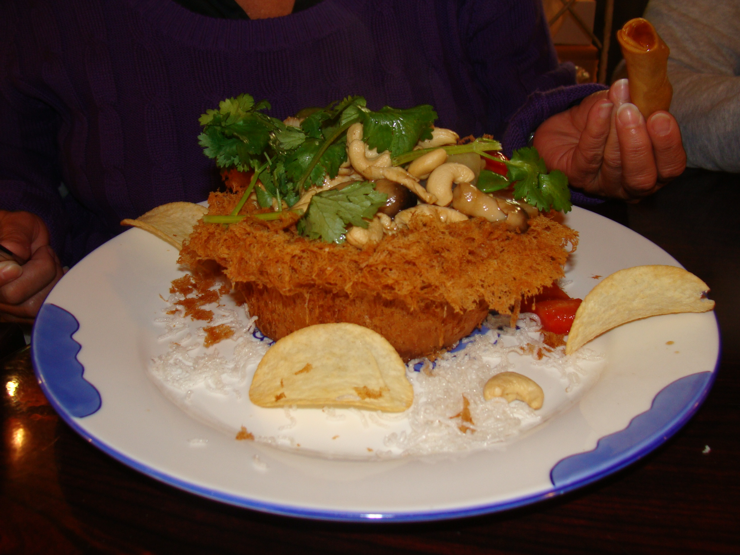 Entree prepared at a "traditional" Malaysian restaurant in Chinatown, NYC